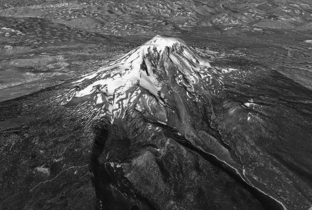 Mount Adams, Washington, rendered in World Wind. Public domain 1m imagery. Looking towards the northwest.